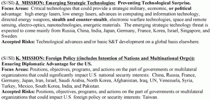 Strategic Mission List for SIGINT System of the USA on Germany in the time frame early 2007 to mid 2008